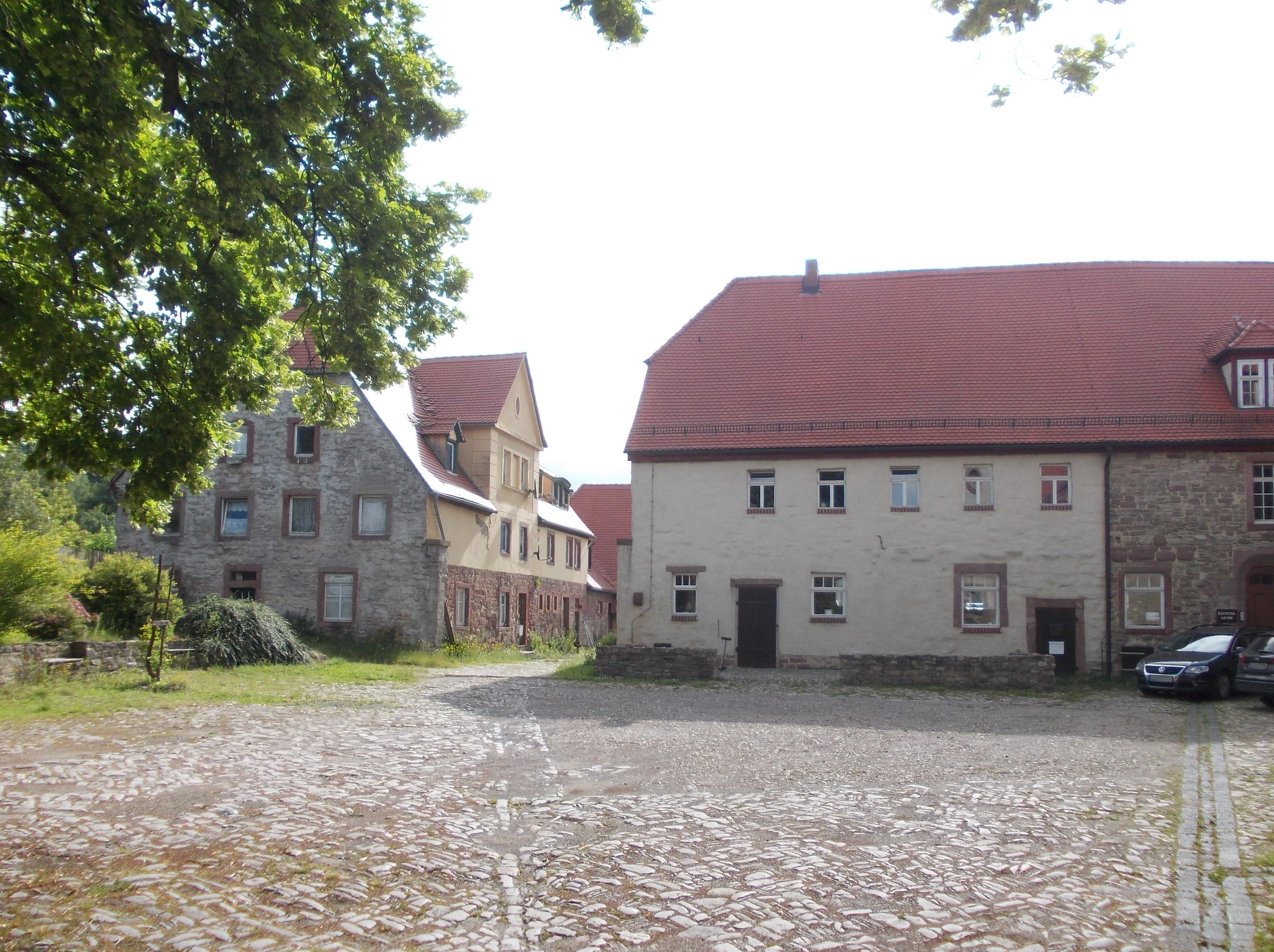 Klosterrode estate (Blankenheim, Mansfeld-Südharz district, Saxony-Anhalt)